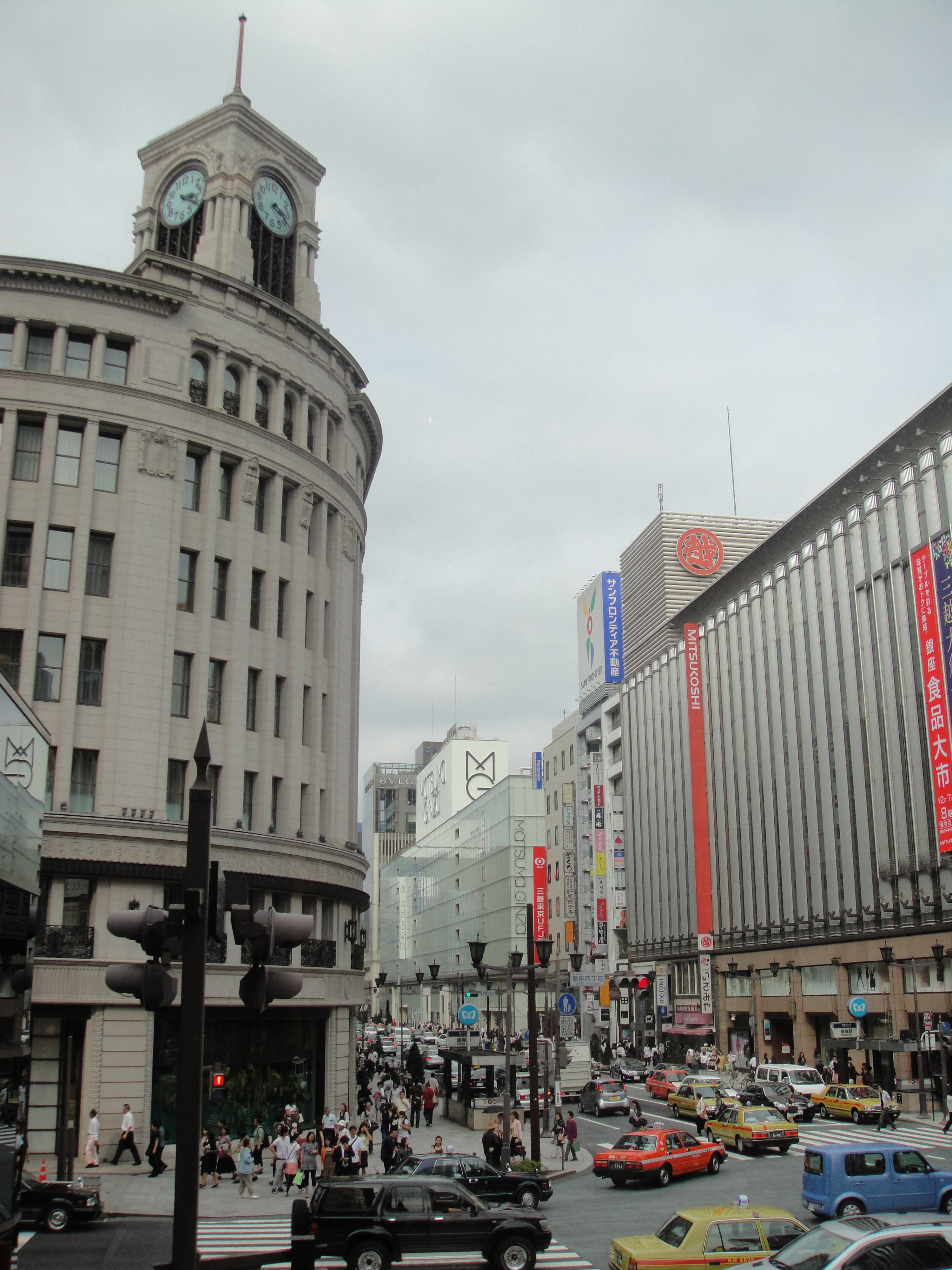 Tokyo - Ginza